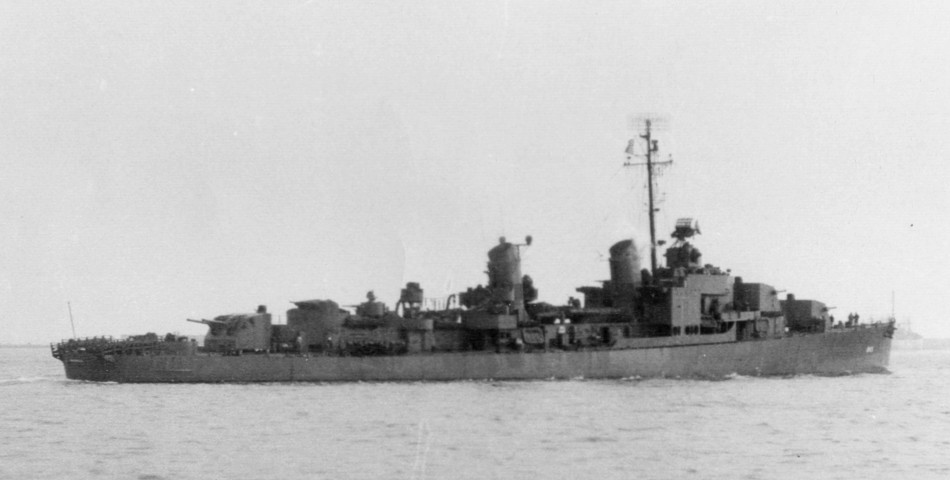 The U.S. Navy destroyer USS Bausell (DD-845). Although commissioned on 7 February 1946, she is painted in Camouflage Measure 21.